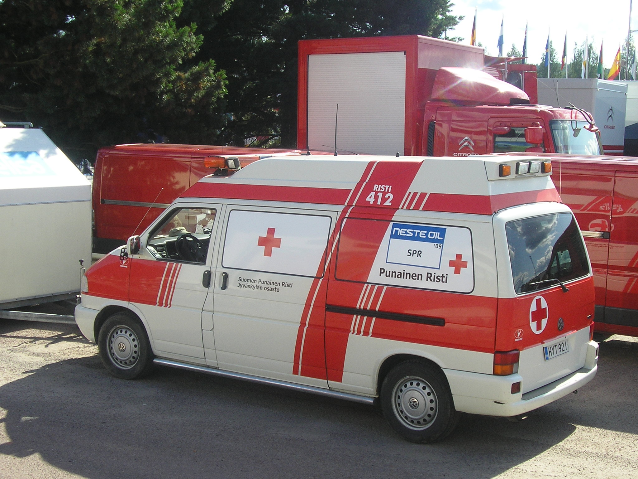 Finnish Red Cross' ambulance in Jyväskylä. Basa Sunda: Punaisen ristin ambulanssi (Volkswagen, no. 412, rek. no. HYT-921) Lutakossa Neste rallin aikana.